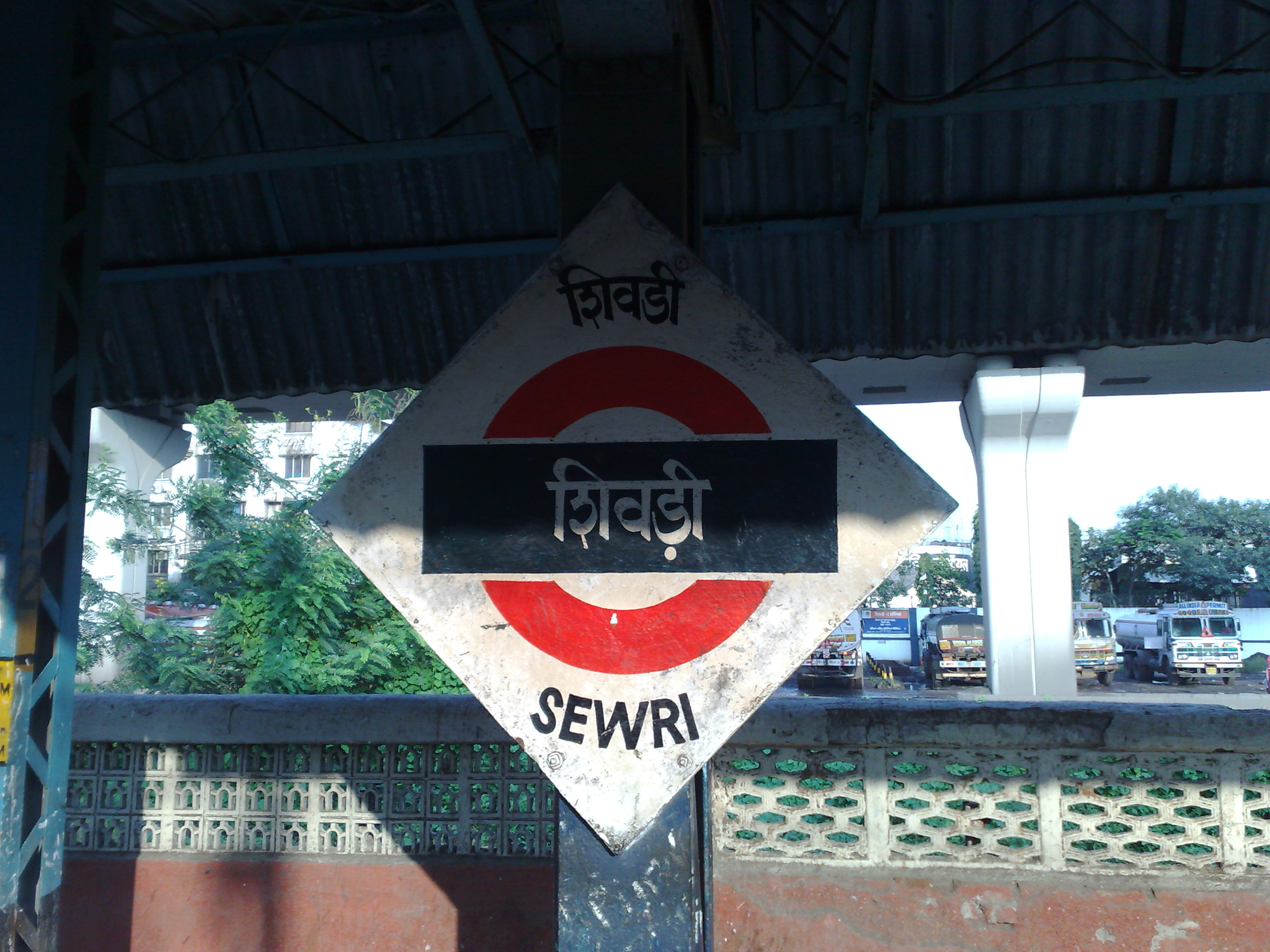 Sewri platformboard